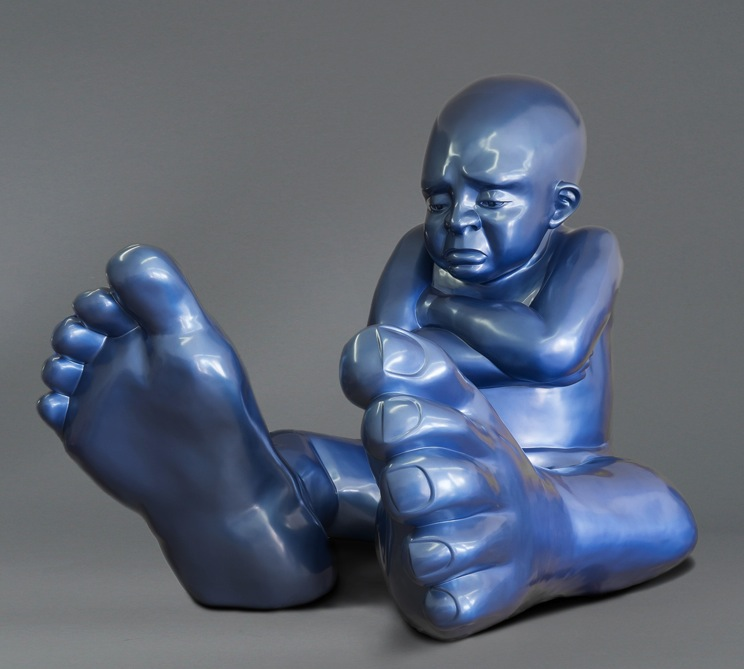 Baby Foot Giant Blue